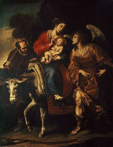 The Flight into Egypt